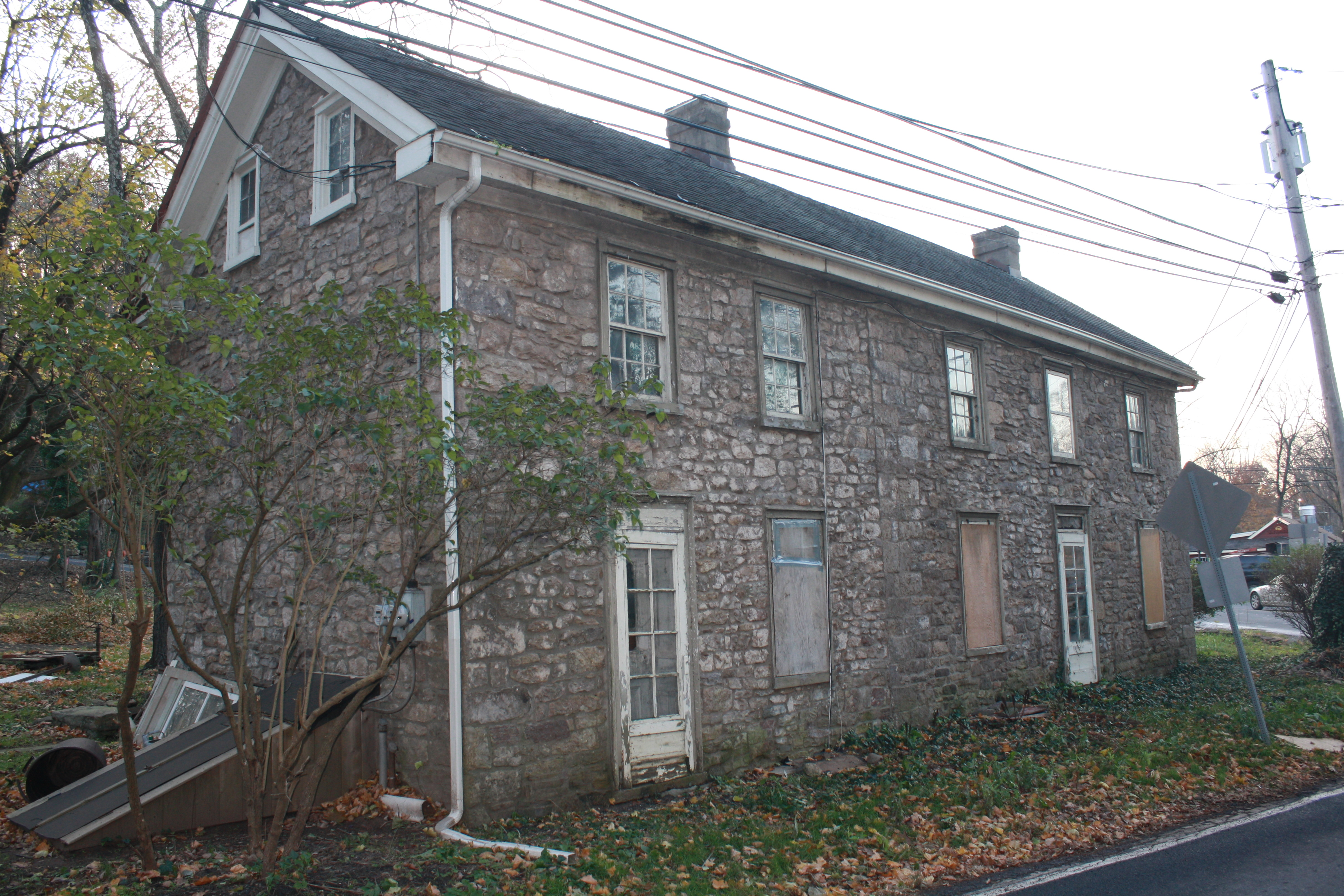 Center Bridge Historic District is a national historic district located in Solebury Township, Bucks County, Pennsylvania. Object location40° 24′ 02″ N, 74° 58′ 48″ W